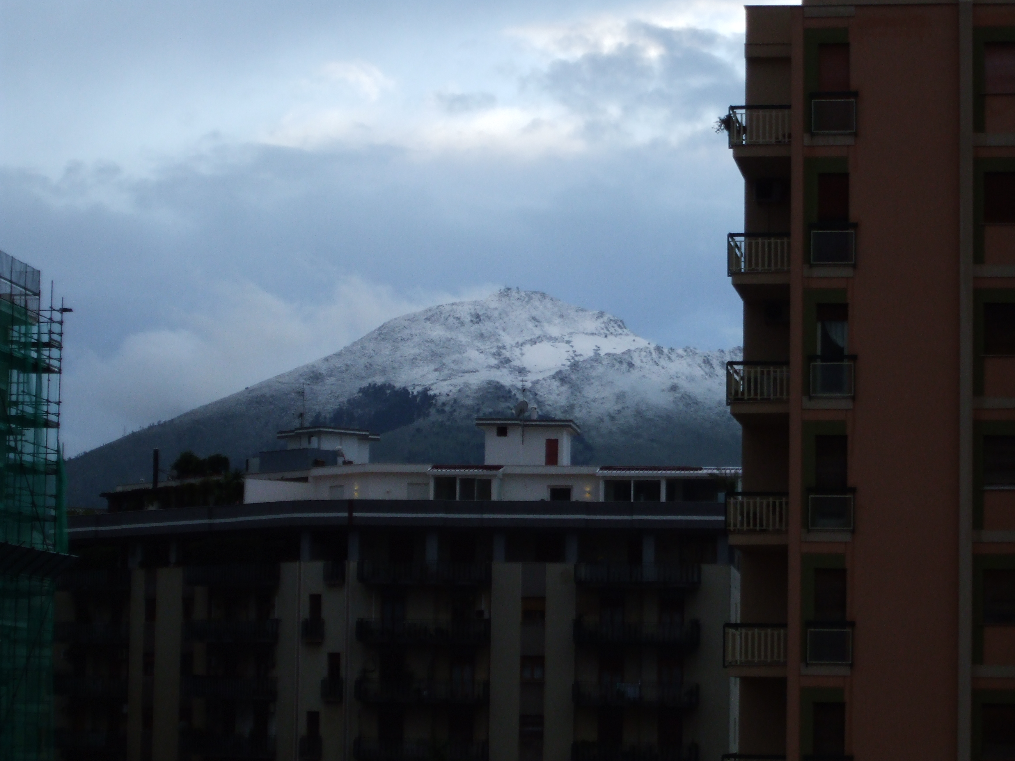 View of Monte Cuccio from Palermo